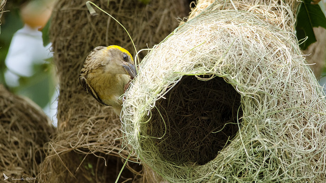 baya weaver weaving kolkata outskirts